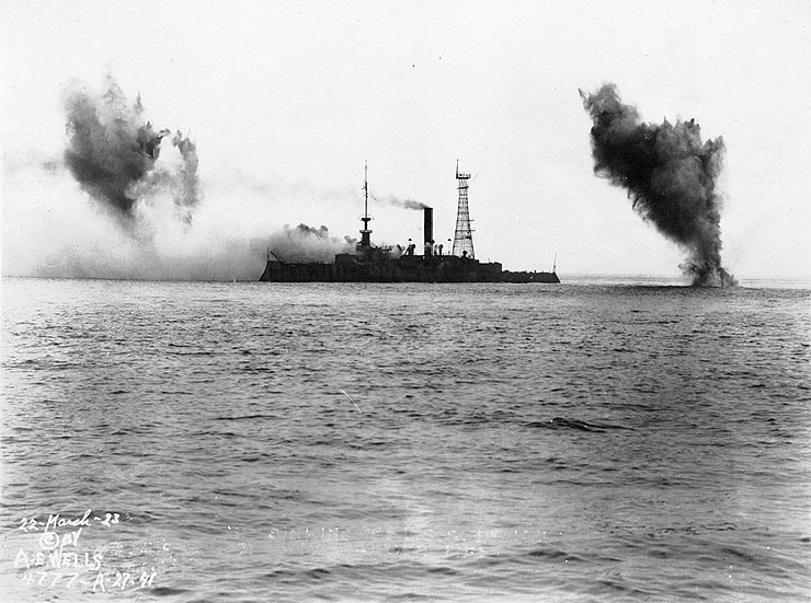 Photo #: NH 96027 Coast Battleship No. 4 (ex-USS Iowa, Battleship # 4) Under fire by battleship guns, while in use as a radio-controlled target during Fleet gunnery practice off Panama, 22 March 1923. Note projectiles hitting the water on either side of the target, and the ship's collapsed forward smokestack. Photographed by A.E. Wells. -- The ship was sunk as a result of damage received in this exercise. -- Collection of Commodore Norman C. Gillette, USN. -- U.S. Naval Historical Center Photograph. Source: [1]